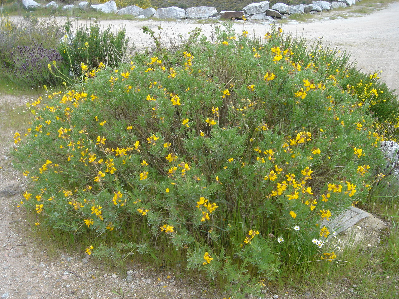 Adenocarpus argyrophyllus.